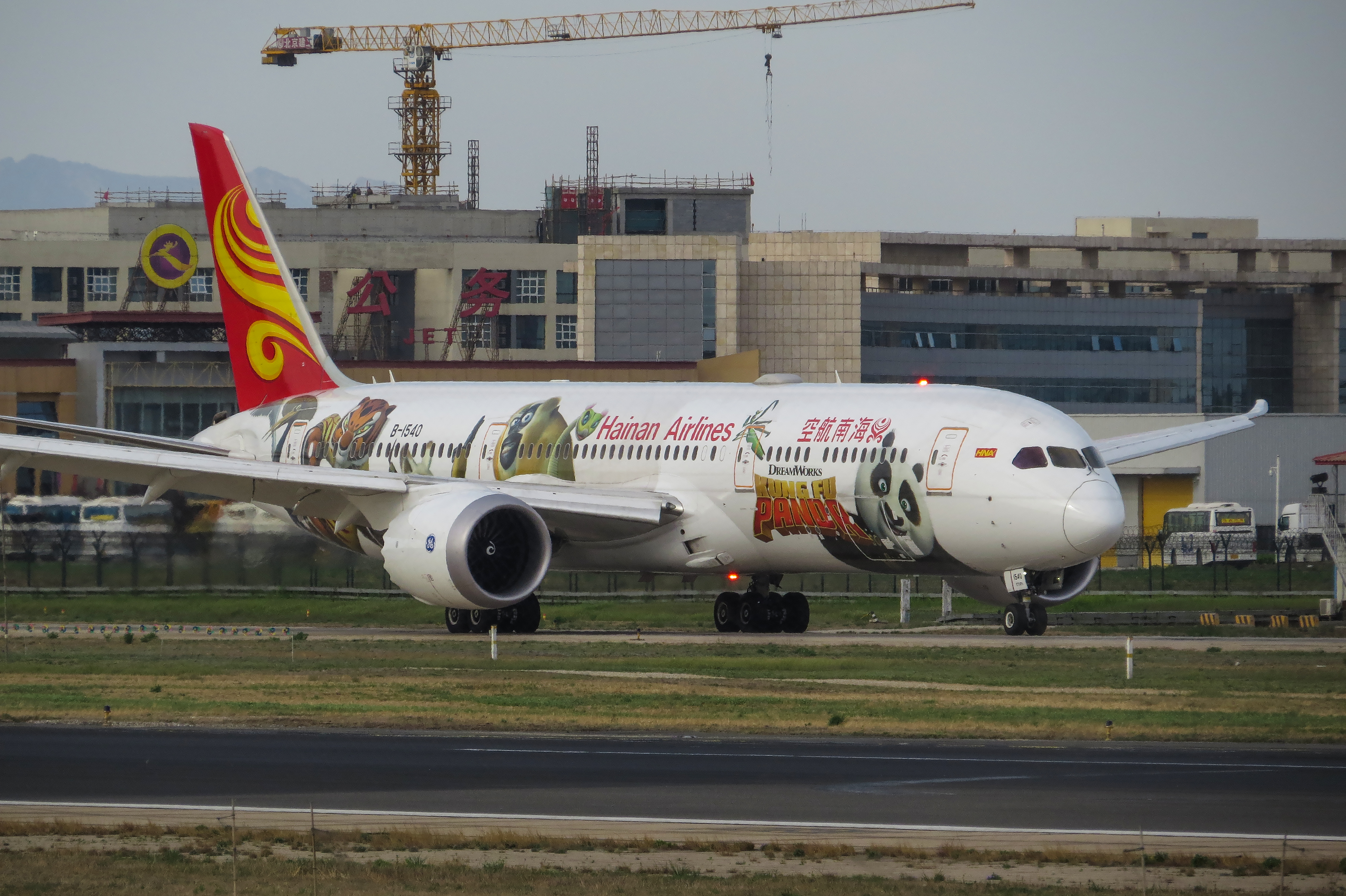 Hainan 7281 from Haikou.